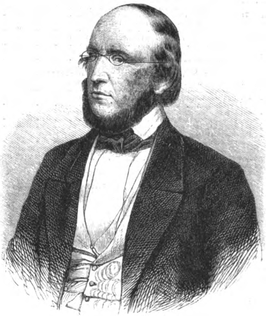 Franz Xaver Chwatal, bohemian pianist, composer and music teacher.